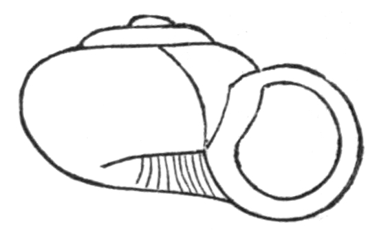 drawing of the shell of Vallonia pulchella